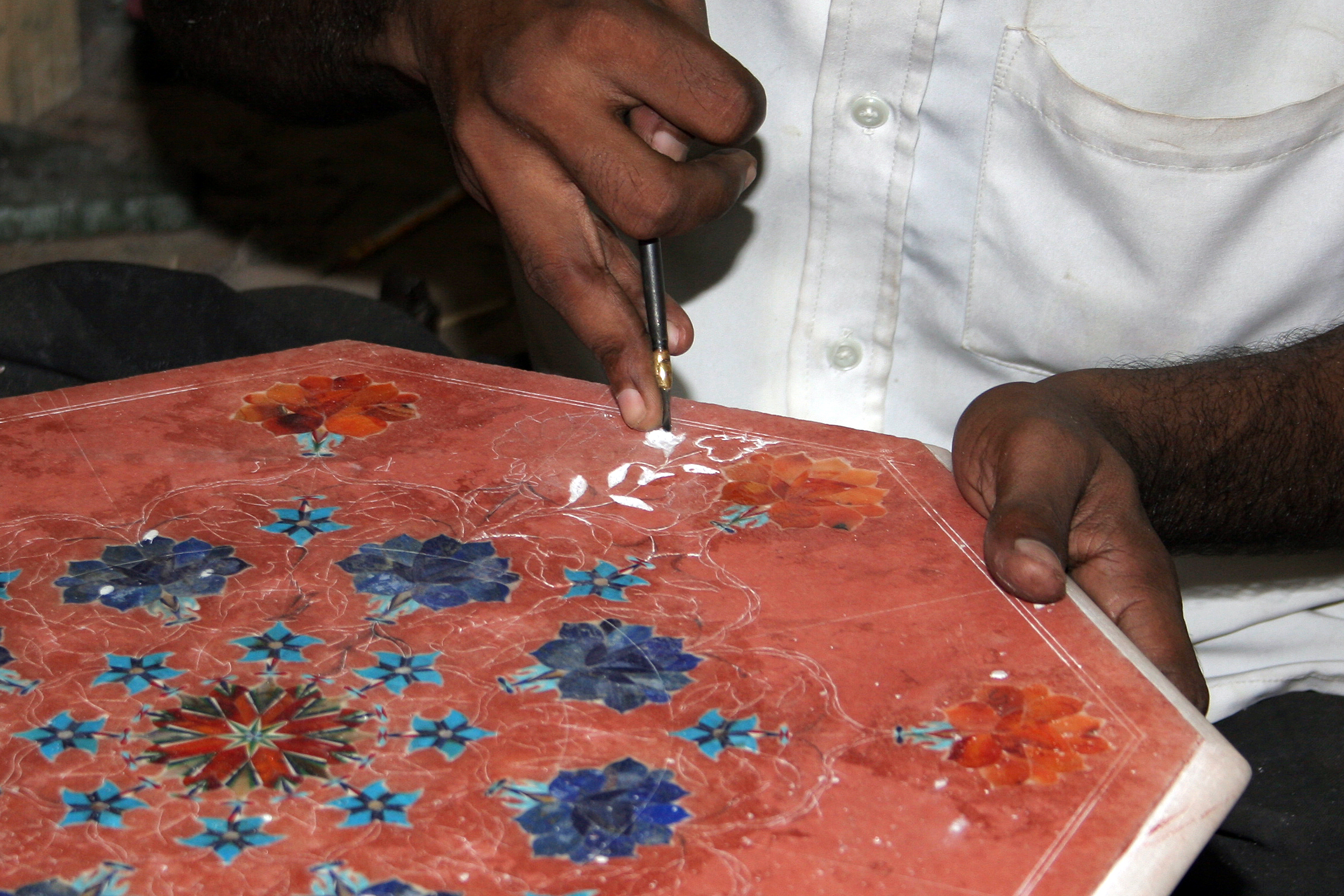 Agra artisan producing marble stone inlays. This craft, as many other, supposedly goes back to the masters building the Taj Mahal.